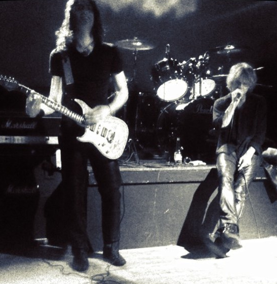 Michael Astons Gene Loves Jezebel in Springfield, VA.